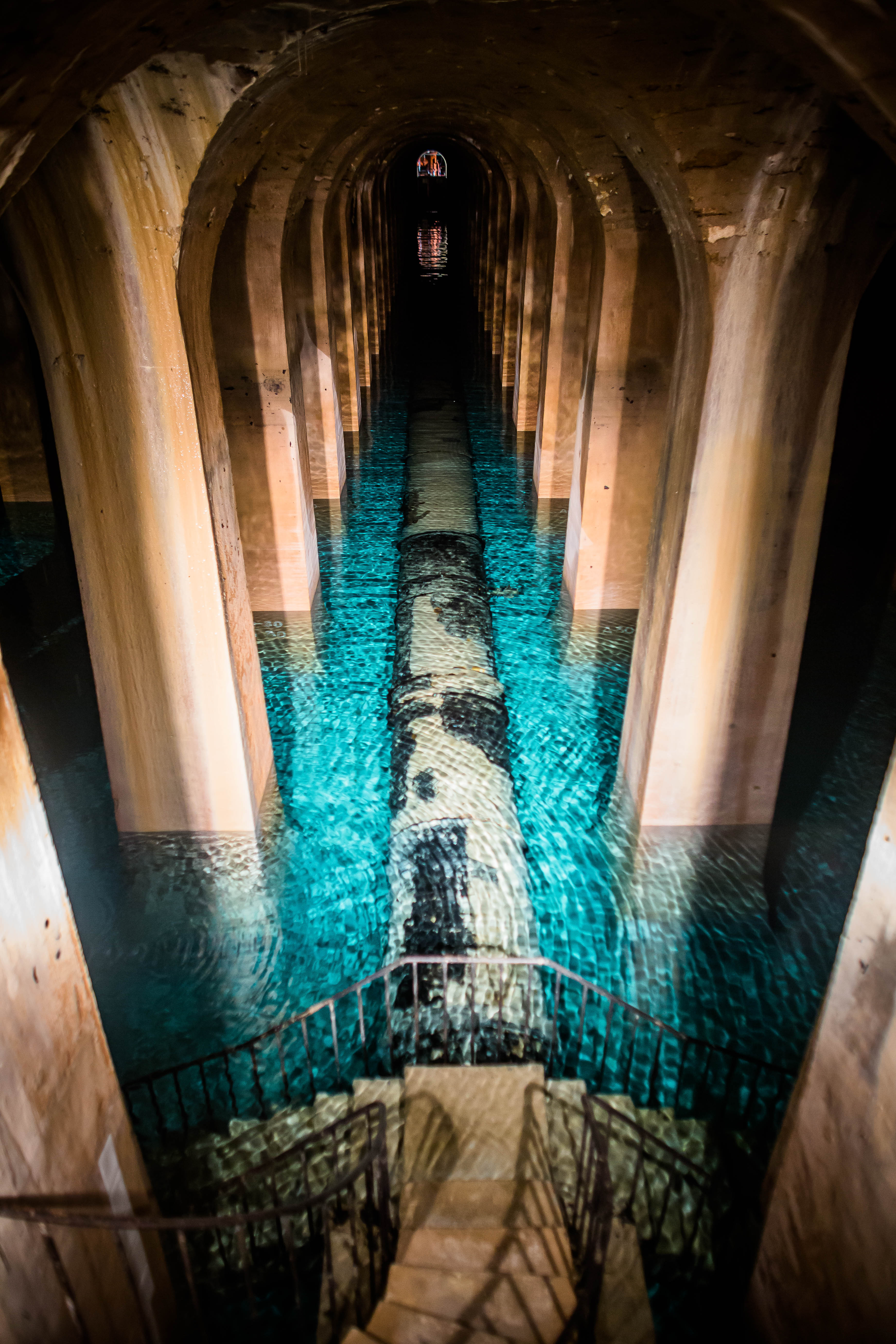 Incoming source water in one of the huge tanks of Montsouris Reservoir in south of Paris.